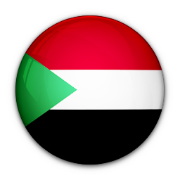 علم السودان